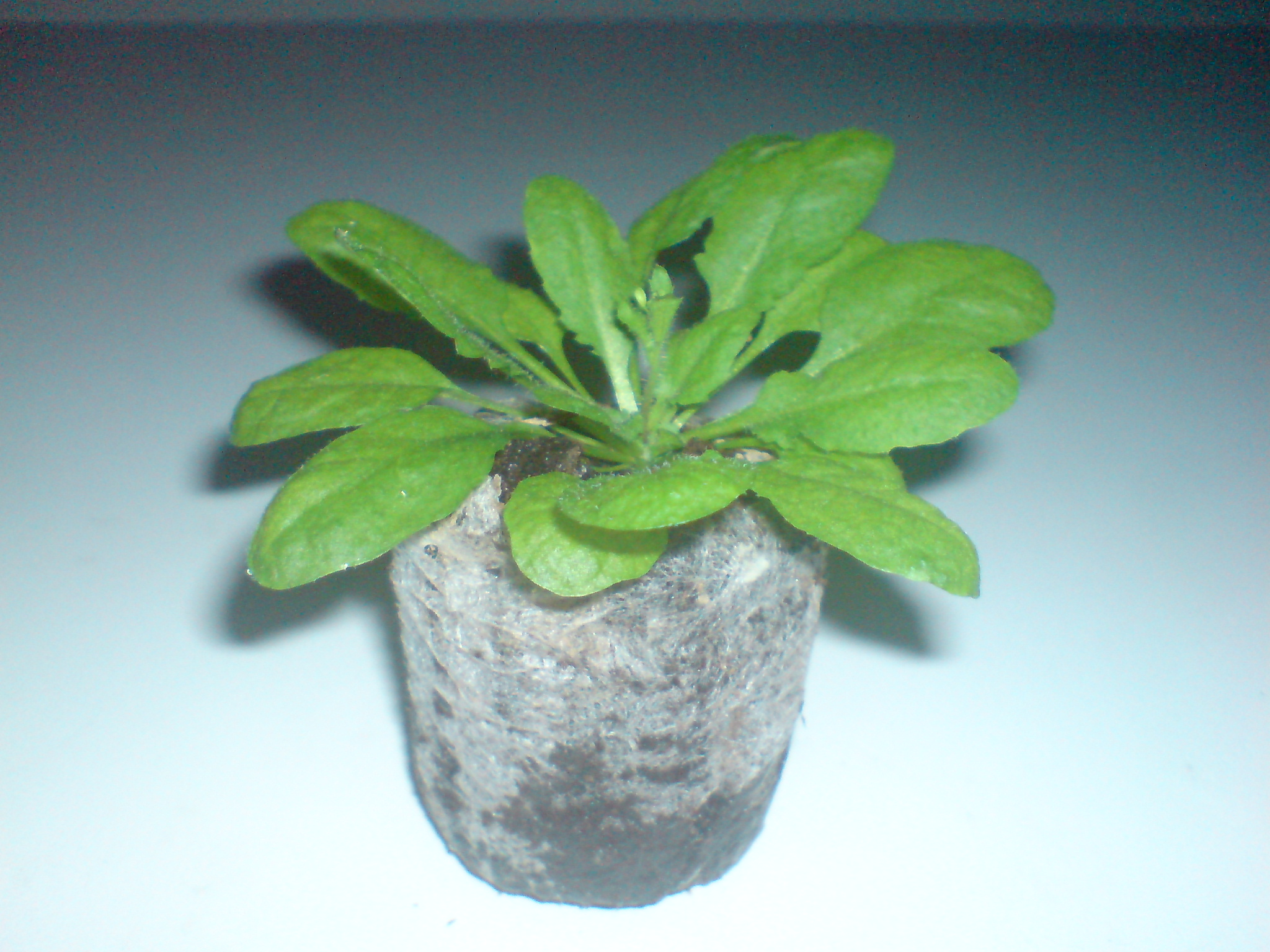 Young plant of Arabidopsis thaliana ecotype Columbia-O in Jiffy pellet. Plant is having rosette leaves and is just about to start shooting up (inflorescence).